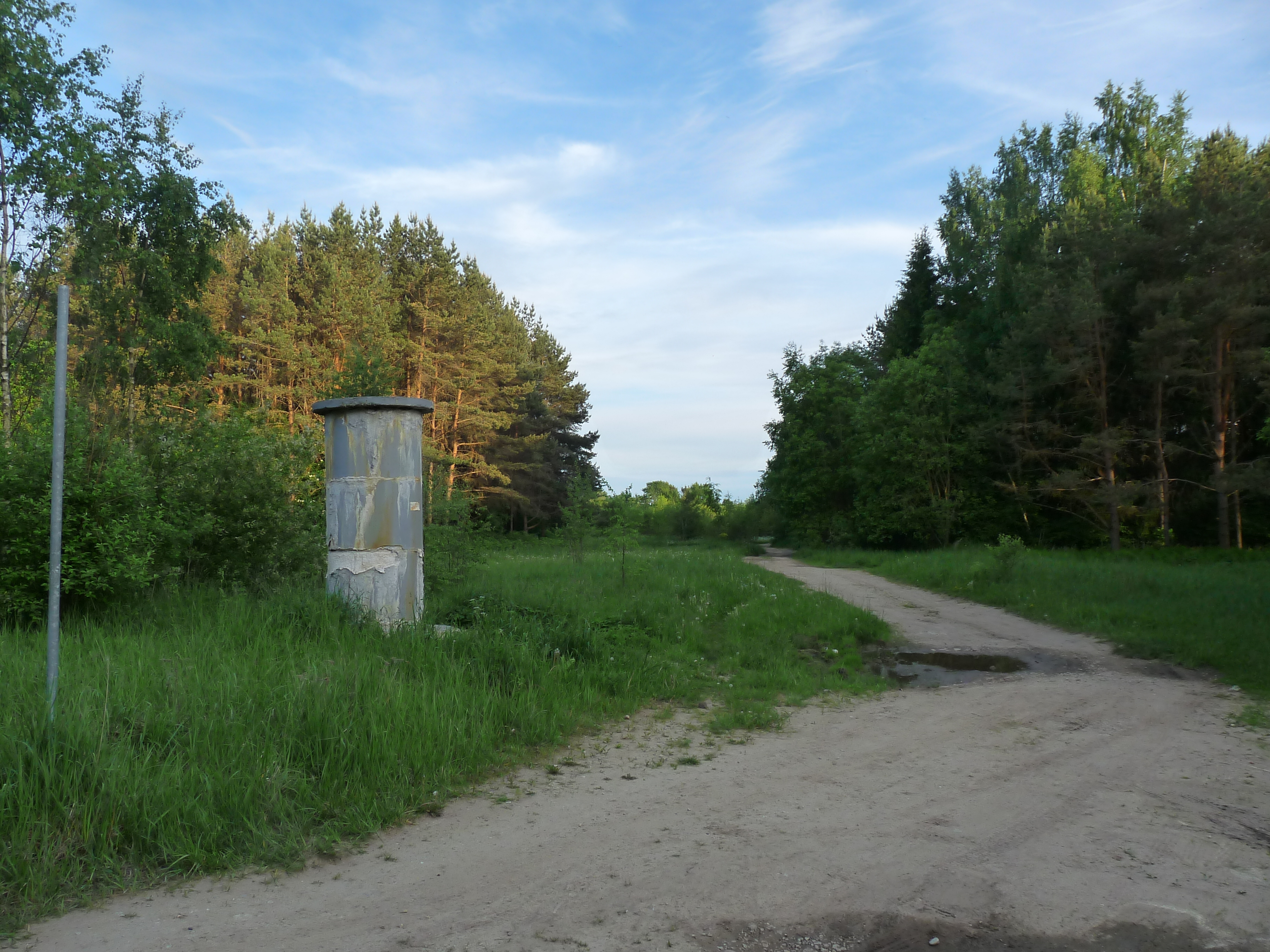 Area reserved for high-speed tram 180° rotation. This area is used as wasteland since USSR collapse.